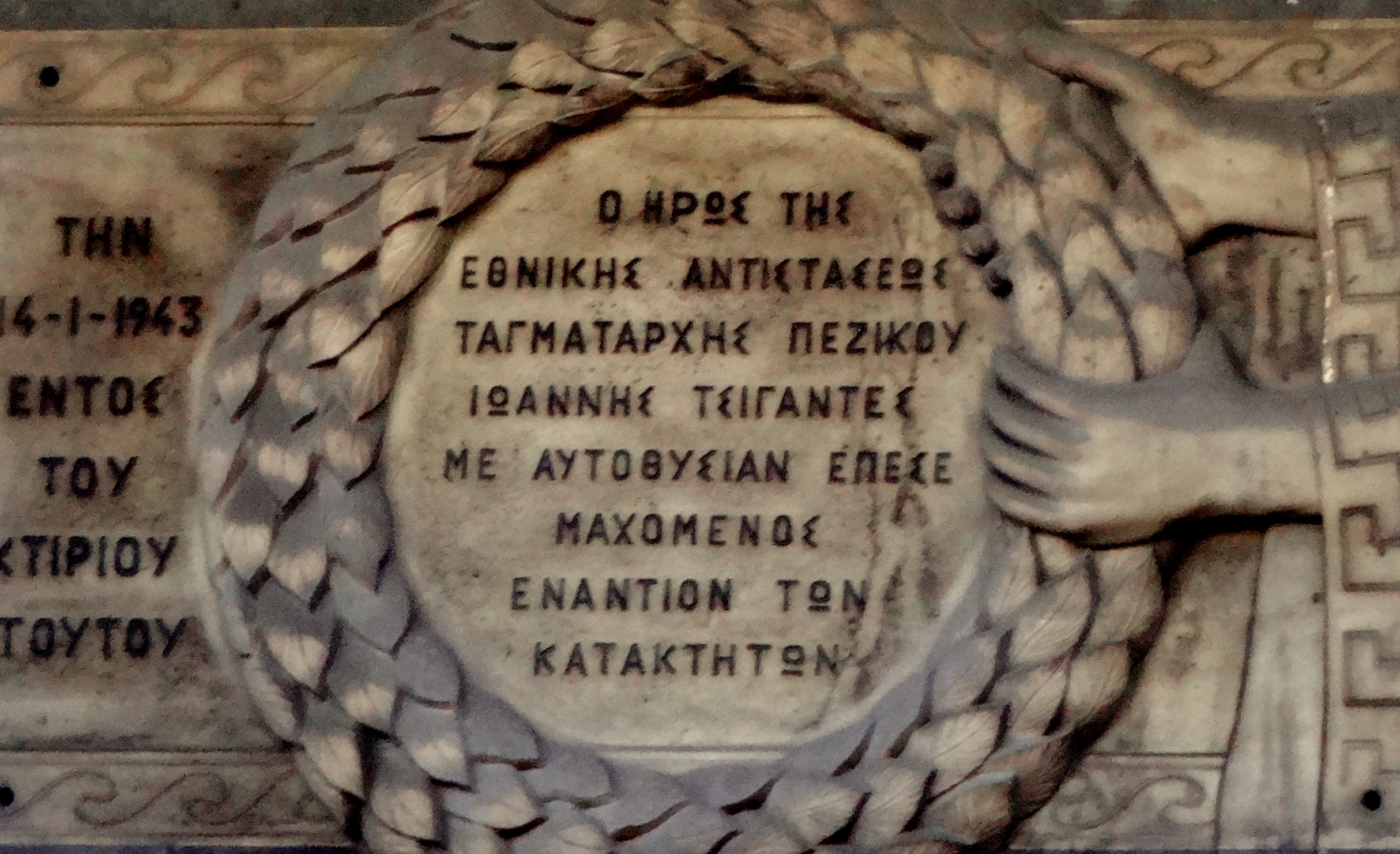 Memorial plaque on the building in which was killed major Ioannis Tsigantes, Ahens, Greece